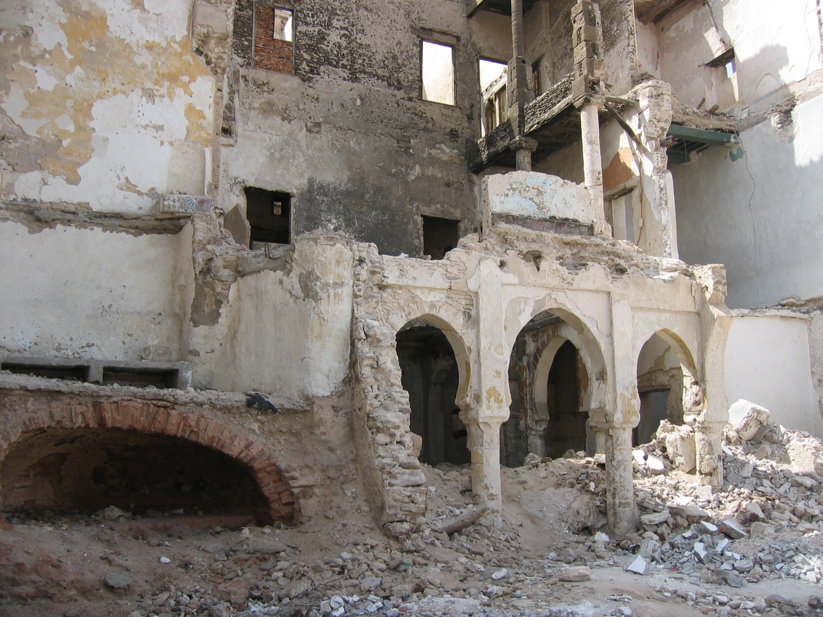 Ruins of Essaouira on Mellah Street